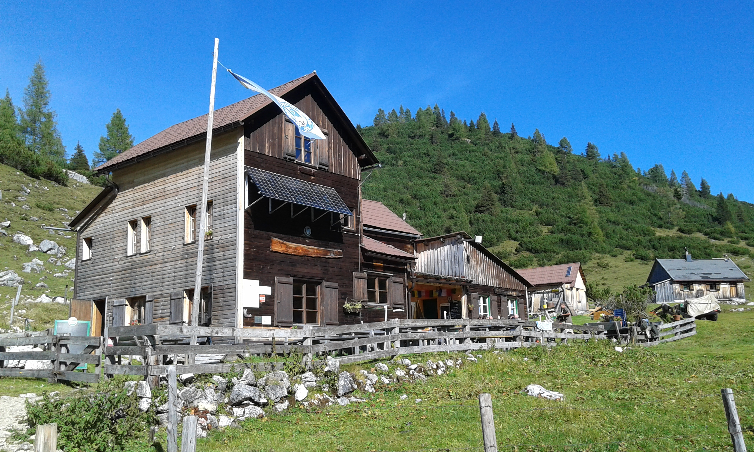 Hochmölbing Hütte - Totes Gebirge